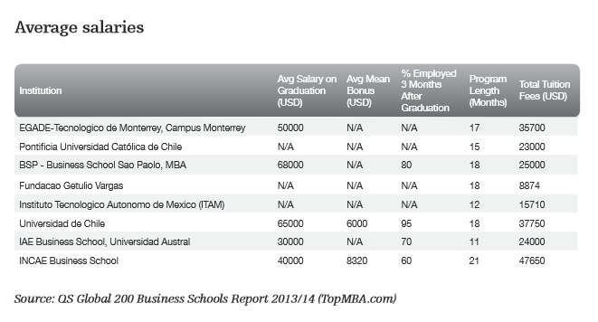 Salaries for MBA graduates.